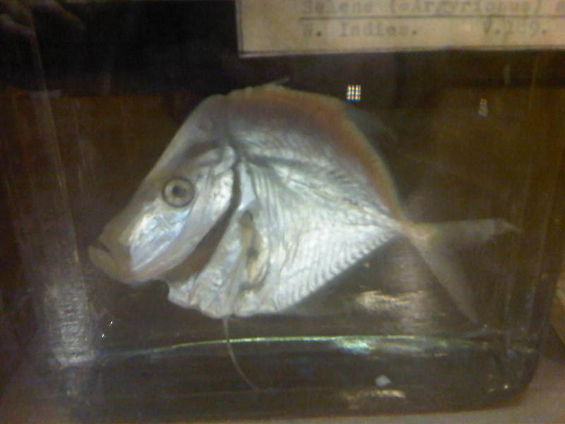 Lookdown (Selene vomer) in Grant Museum of Zoology, London, England.